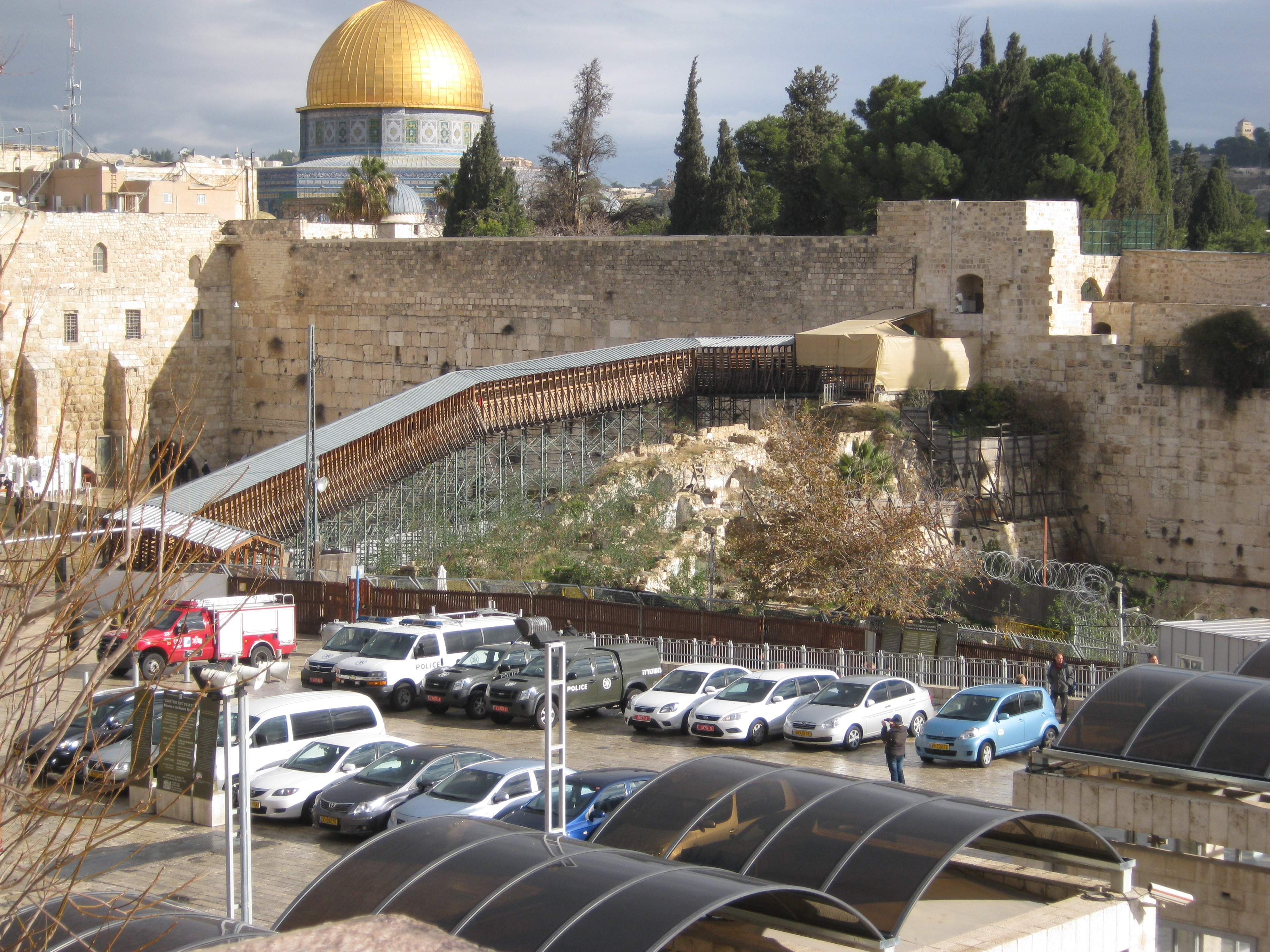 Mughrabi-Ramp